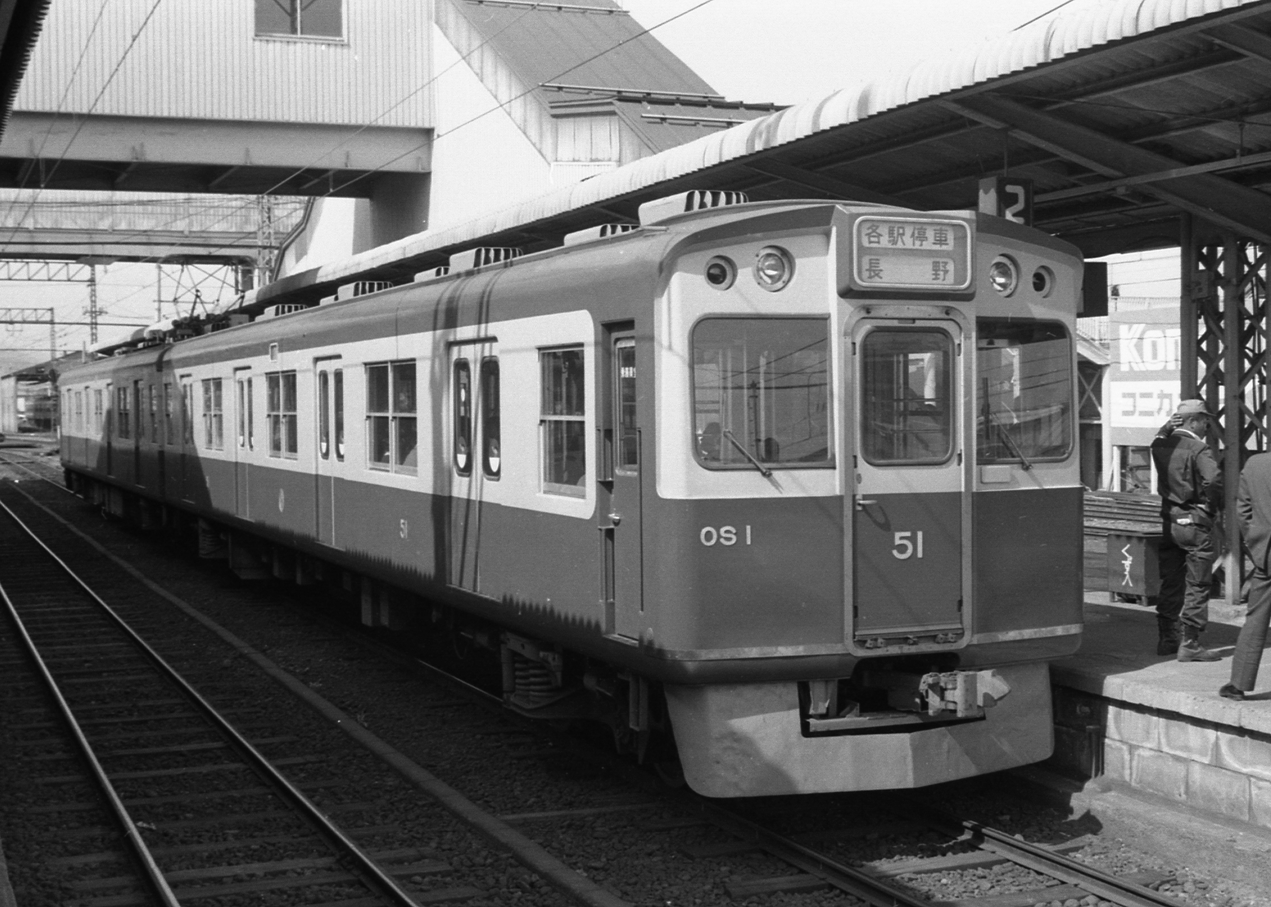 Nagaden 51 at Suzaka